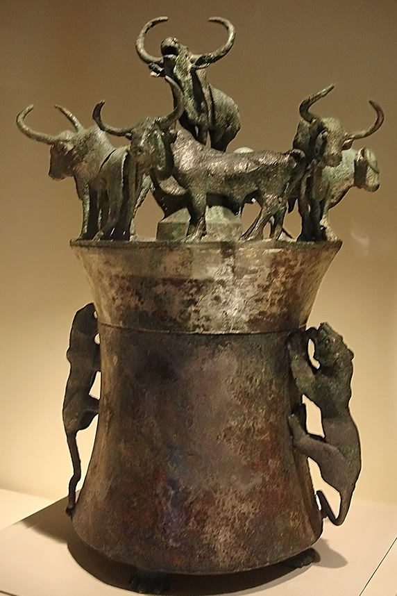 Bronze Cowrie Container Before the Western Han Dynasty (206 B.C. - A.D. 8) Excavated at Jinning, Yunan Province, 1956 National Museum of China, Beijing Cowrie shells were used as currency in ancient China. This container, found in a tomb, features two tigers and seven oxen; cattle and buffalo are symbols of wealth and influence in an agricultural society. The container was made by the Dian people of Yunnan, and suggests that exchange between bronze cultures of the Central Plain and Southwest China were occurring at this time.